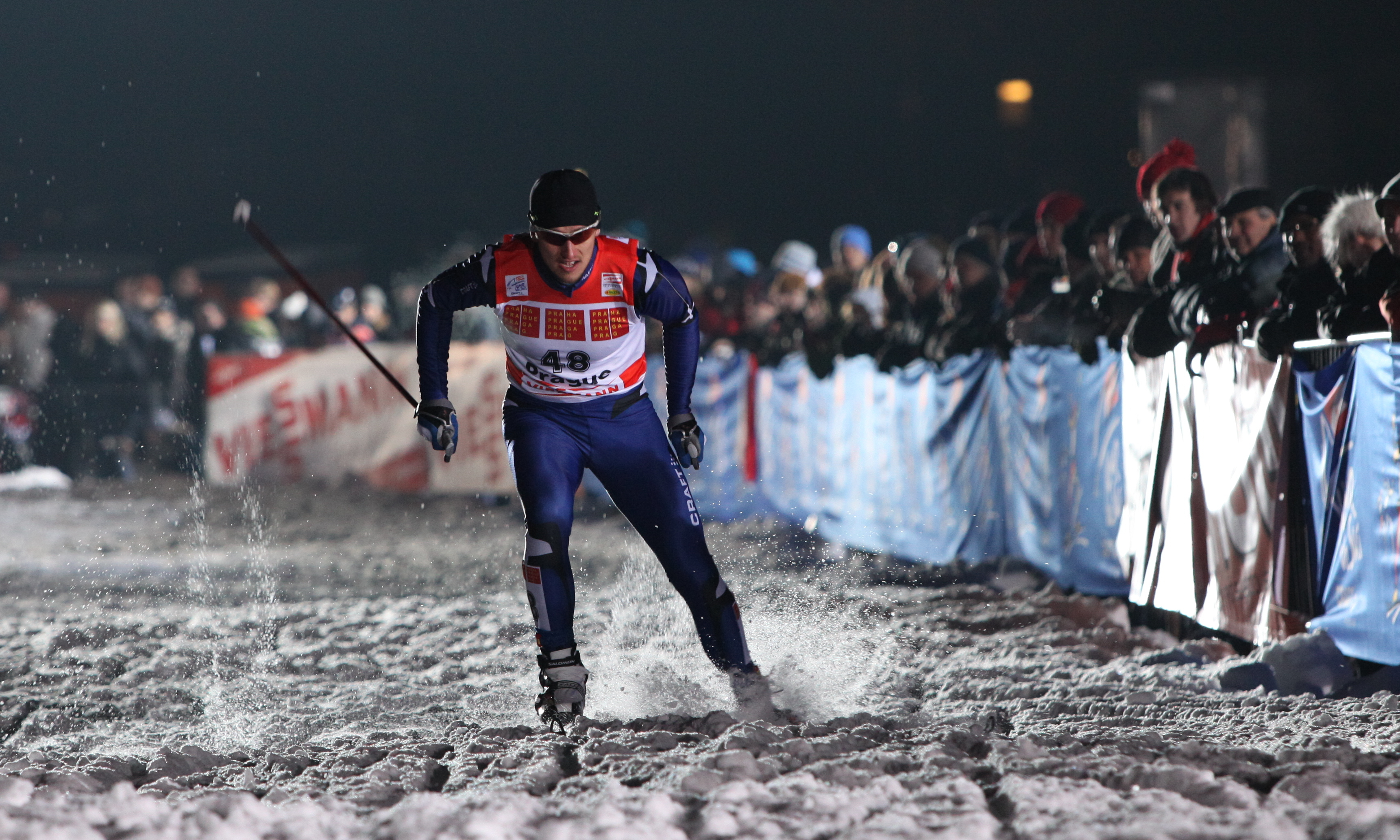 Yevgeniy Koshevoy, Kazakh cross-coutry skier, at Ski Sprint Praha in 2010